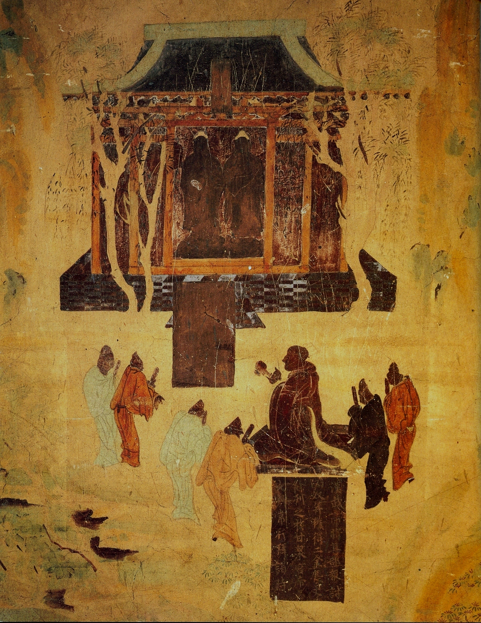 8th century fresco at Mogao Caves near Dunhuang in Gansu Province. Depiction of the Han Emperor Wu worshiping statues of the Buddha. Attached textual description of Han Wudi worshiping golden men brought in 120 BC by a great Han general in his campaigns against the nomads: "Emperor Han Wudi directed his troops to fight the XiongNu and obtained two large golden statues that he displayed in the Ganquan Palace and regularly worshipped." The frescoe is located in Cave 323 in Mogao. It pertains to the same panel showing the departure of Zhang Qian to Western lands (Image:ZhangQianTravels.jpg). The two paintings are side-by-side. It combined legend and historical fact: Han Emperor Wu has never worshipped the Buddha.